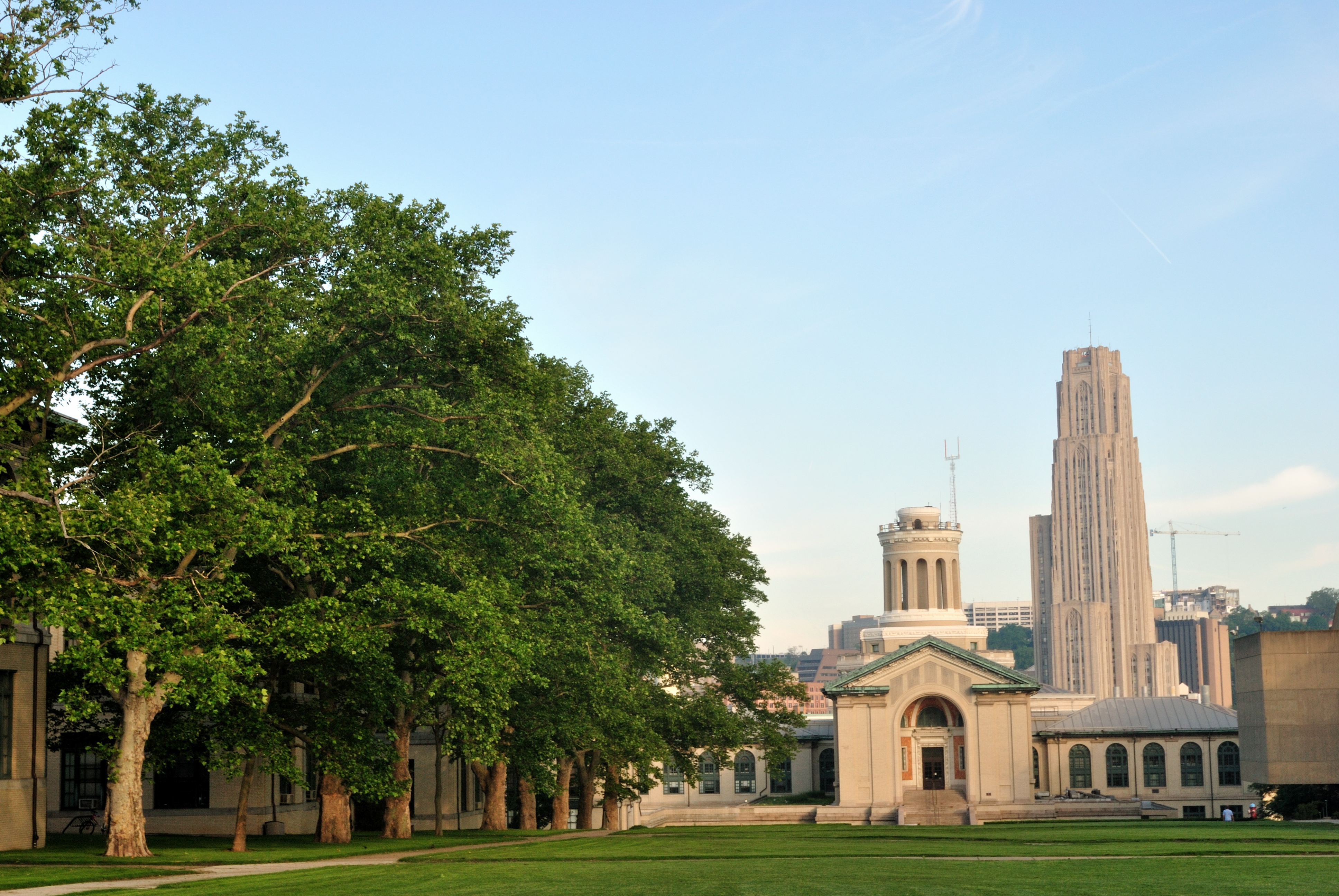 The Mall at Carnegie Mellon University, Pittsburgh. Hamerschlag Hall in the foreground and Cathedral of Learning, University of Pittsburgh in the background.